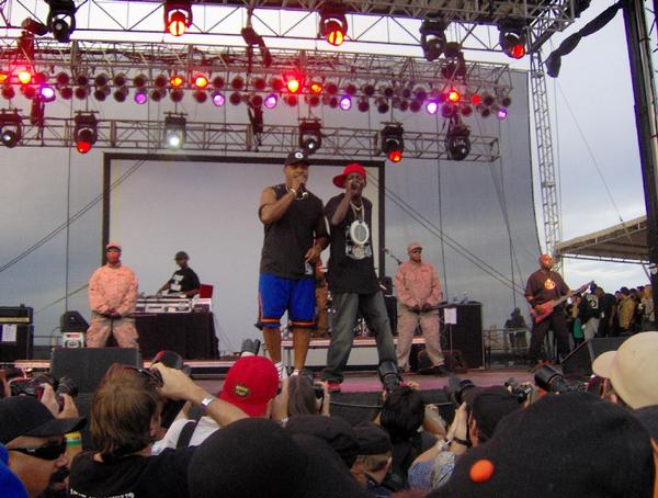 Public Enemy performing at Vegoose music festival in Las Vegas, Nevada on October 27, 2007.